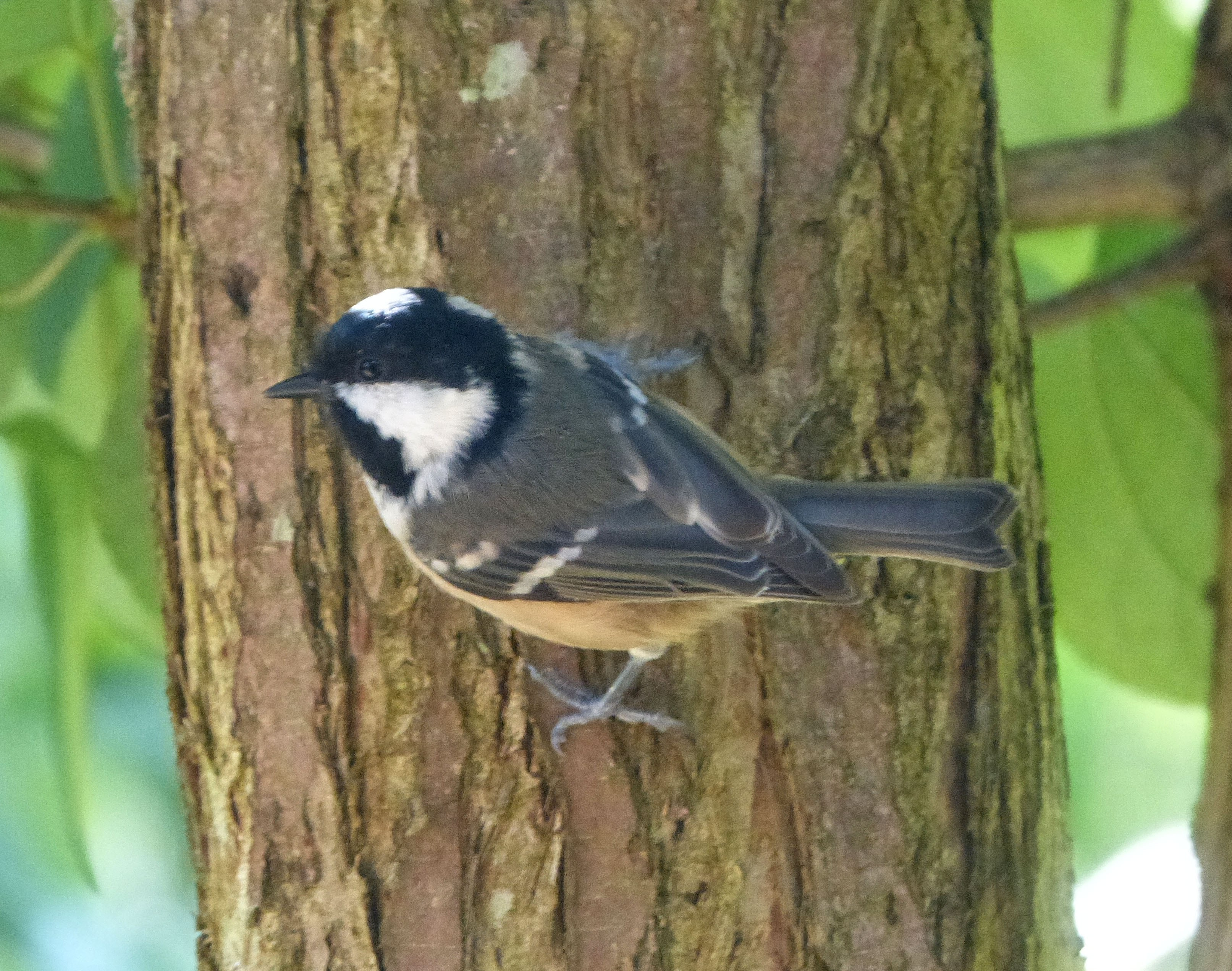 SO 7347, Cradley, Malvern Worcs